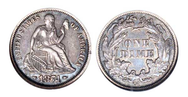 The King of Seated Dimes. 1874 CC current the finest known example to be circulated. Part of the Jason Feldman collection of Seated Dimes.